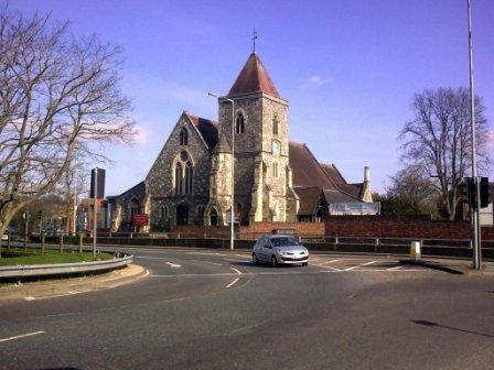 St Paul's church